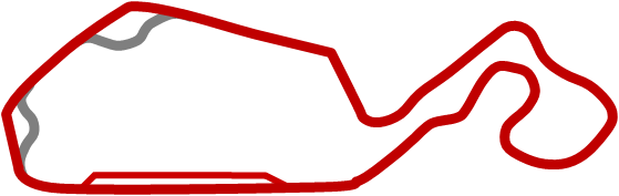 The projected Main Course for the New Jersey Motorsports Park.